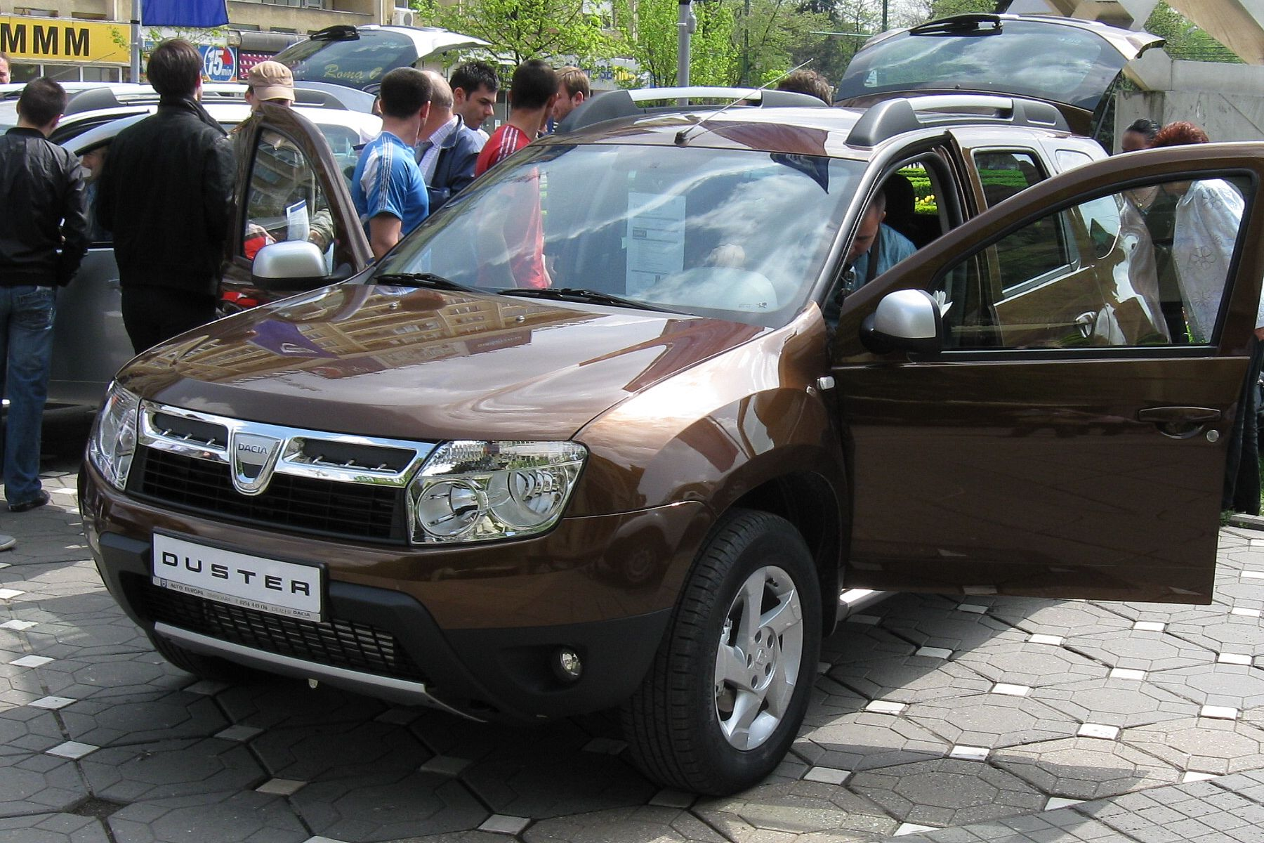 Dacia Duster, "Laureate" version, 1.5 l K9K engine.